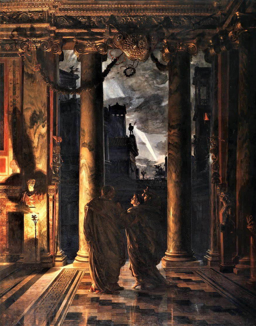 Caesar and his wife Calpurnia sees a comet